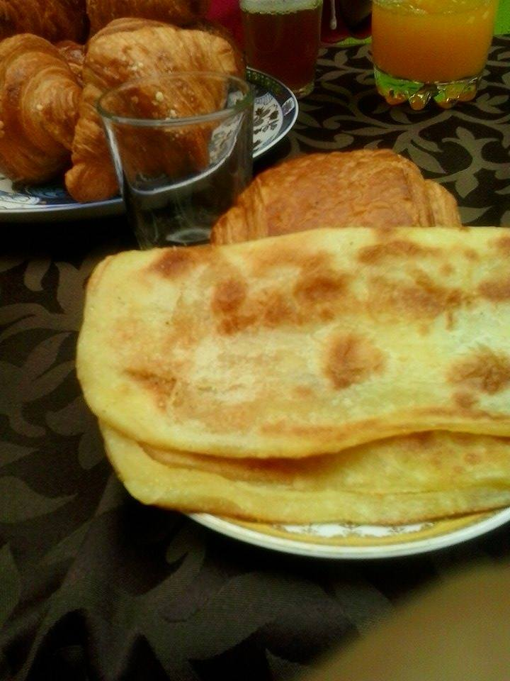 It is like a Moroccan pancake